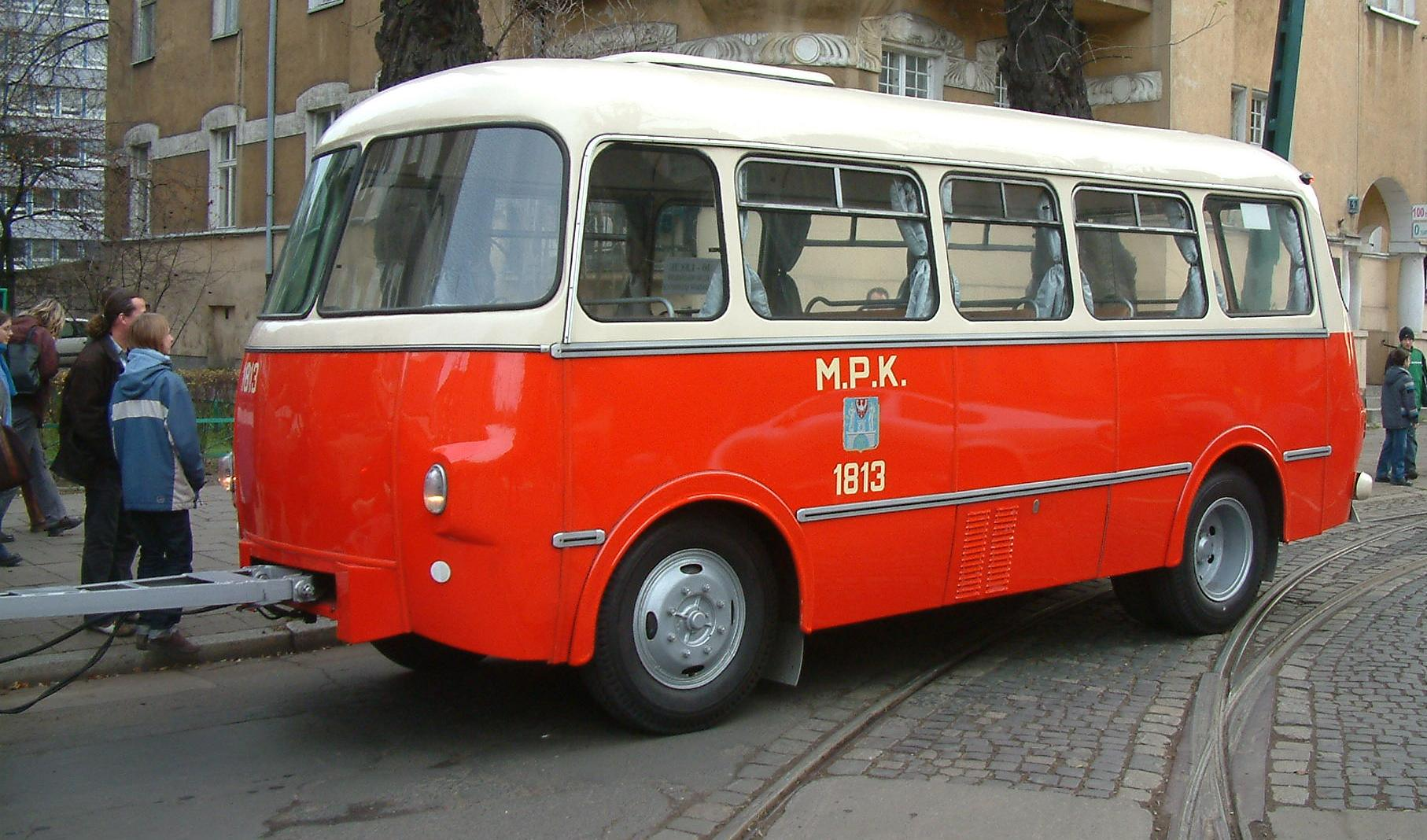 Jelcz P01 bus trailer (#1813) in Poznań, Poland. Built 1972, MPK Poznań operator.